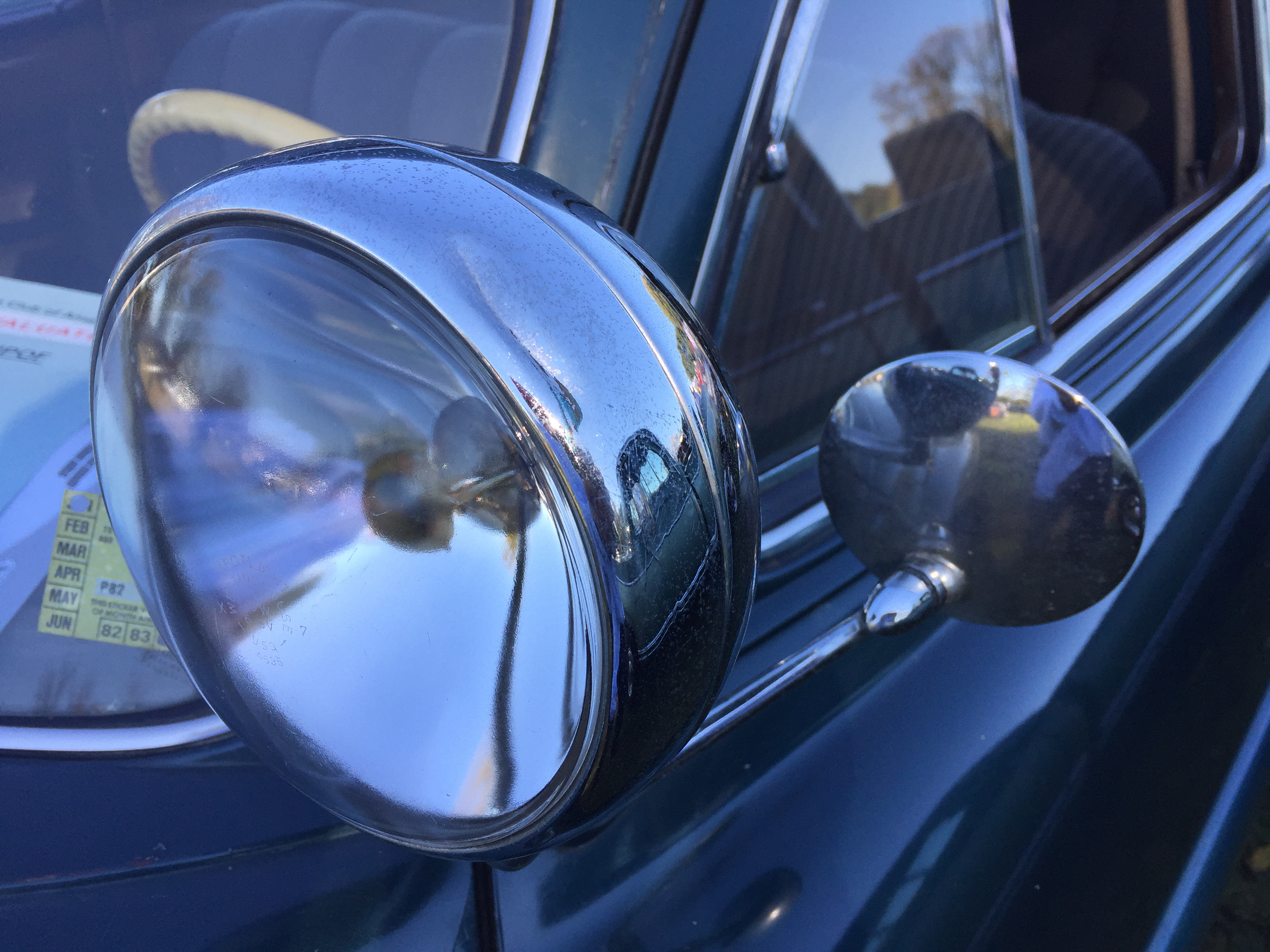 Detail of accessory spot light (mounted on A-pillar and controlled from inside, as well as the rear view mirror on the door) on a 1949 Hudson Commodore, a full-sized four-door sedan featuring Hudson's step-down design that allowed the car to be lower than contemporary models, as well as better handling because of a lower center of gravity. This car has the 202 cu in (3.3 L) straight 6 engine. Picture taken at the 2015 AACA Eastern Regional Fall Show held in Hershey, Pennsylvania. This car is in the HPOF (Historical Preservation Original Features) class.